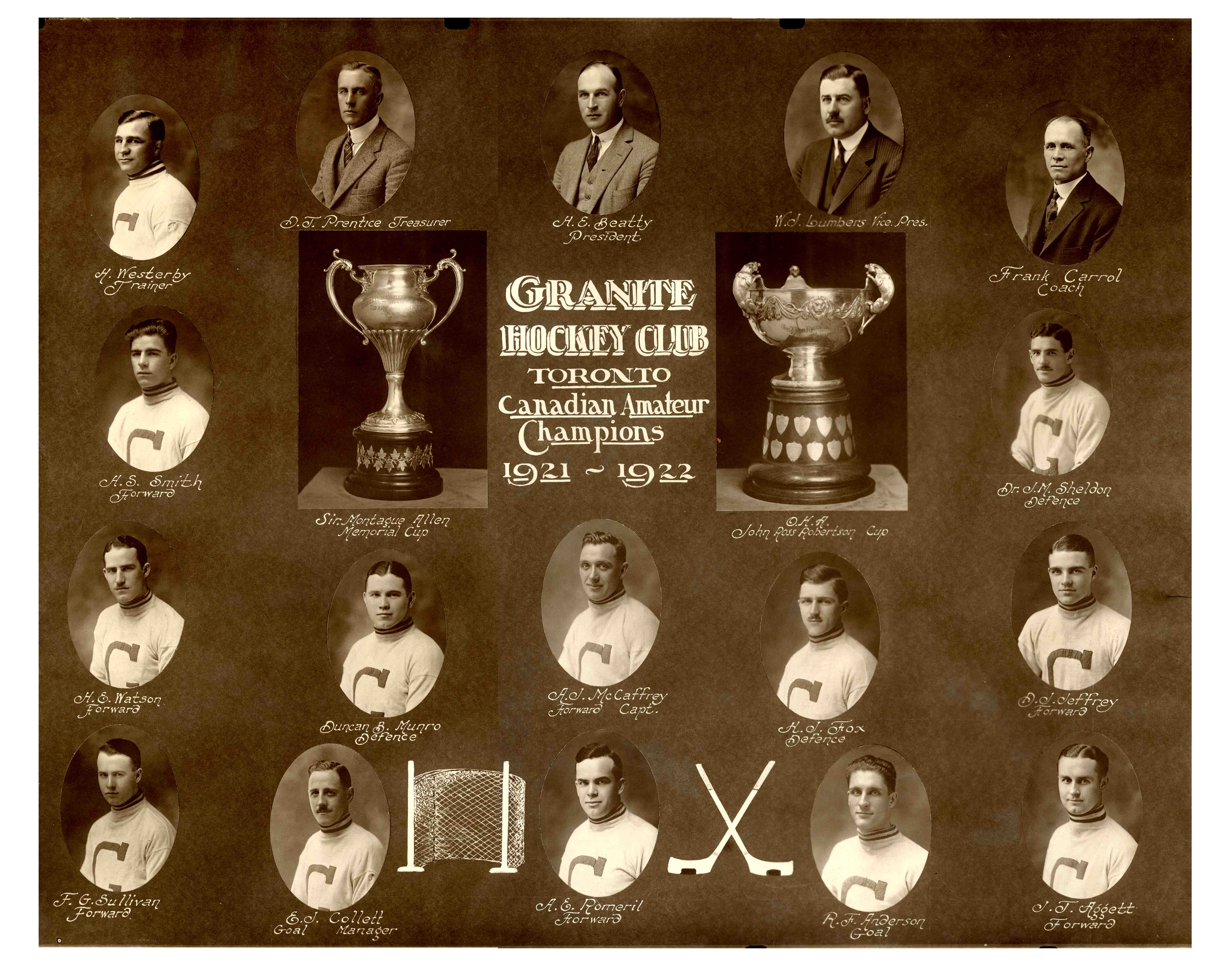 Granite Hockey Club of Toronto, aka Toronto Granites, Canadian Amateur Champions for the 1921–1922. Top row, left to right: Trainer Harry Westerby, treasurer D.T. Prentice, president H.E. Beatty, vice president W.J. Lumbers, and coach Frank Carroll.Second row: H.S. Smith, Allen Cup, Robertson Cup, and Dr. J.M. Sheldon.Third row: Harry Ellis Watson, Duncan Brown Munro, captain Albert John McCaffrey, H.J. Fox, and D.J. Jeffrey.Bottom row: F.G. Sullivan, Ernest John Collett, Alexander Edward Romeril, R.F. Anderson, and J.T. Aggett.